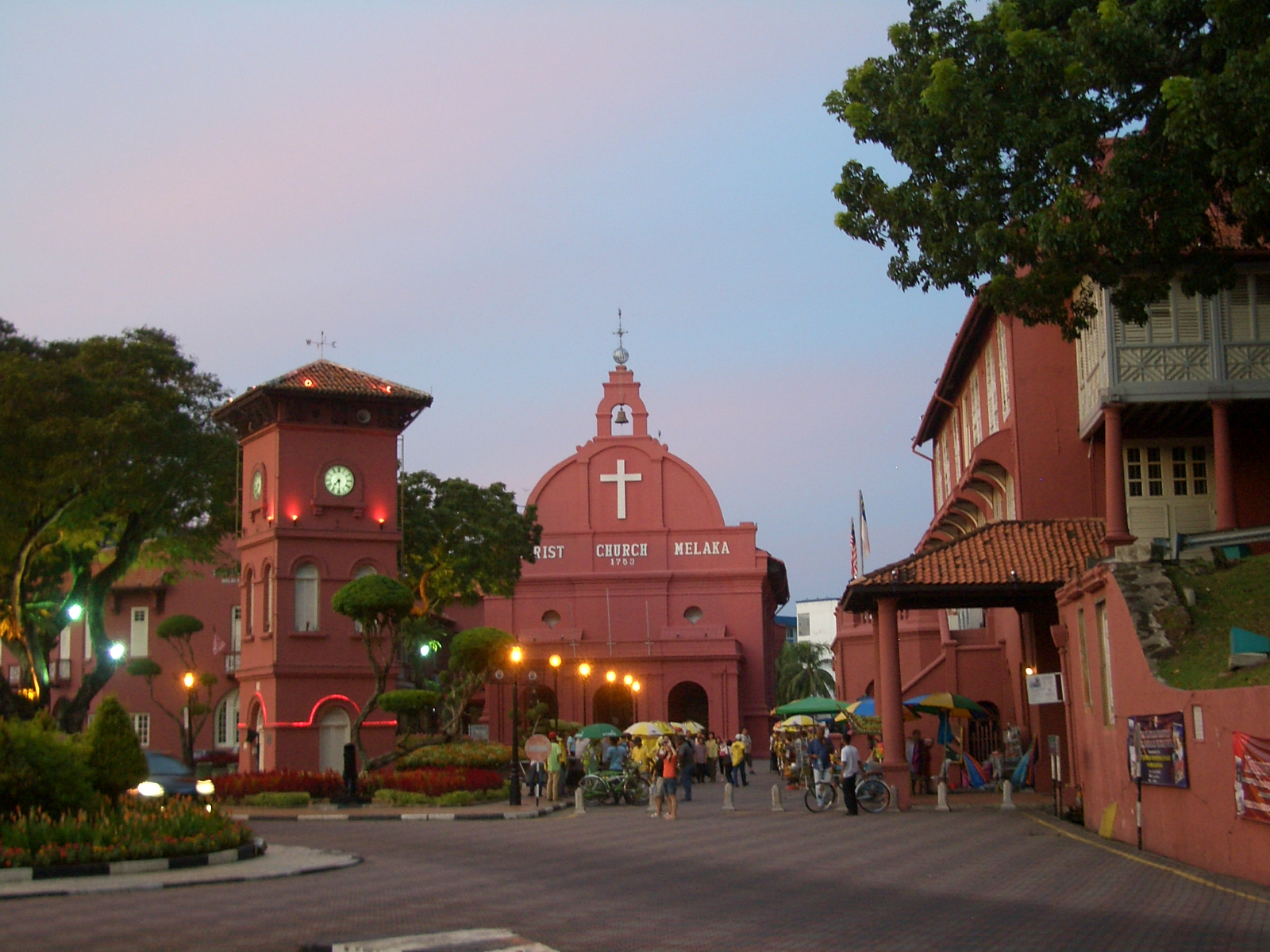 A view of Dutch square in Melaka, with Christ Church in the center